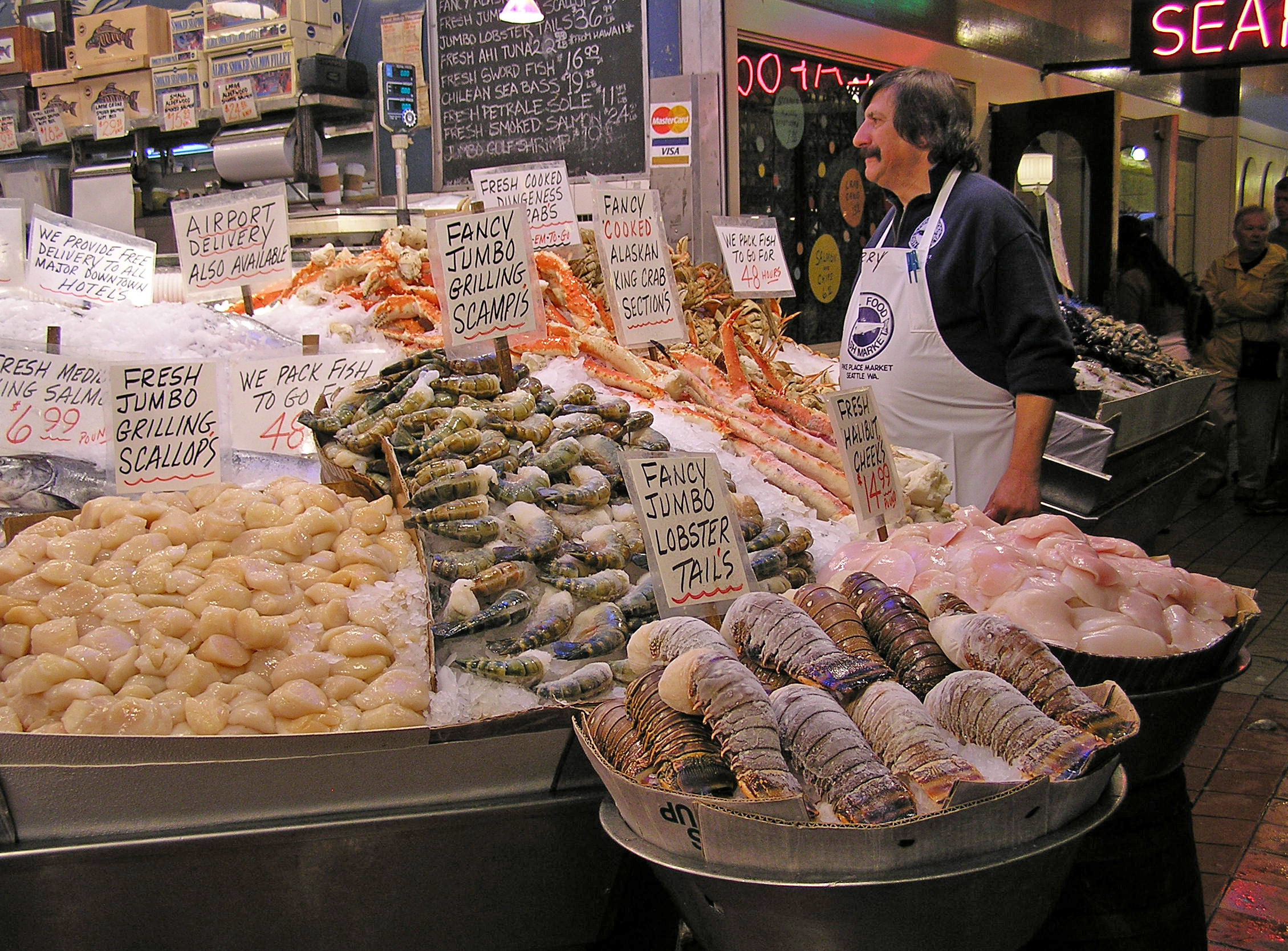 Pure Food Fish, Pike Place Market, Seattle, Washington, U.S.